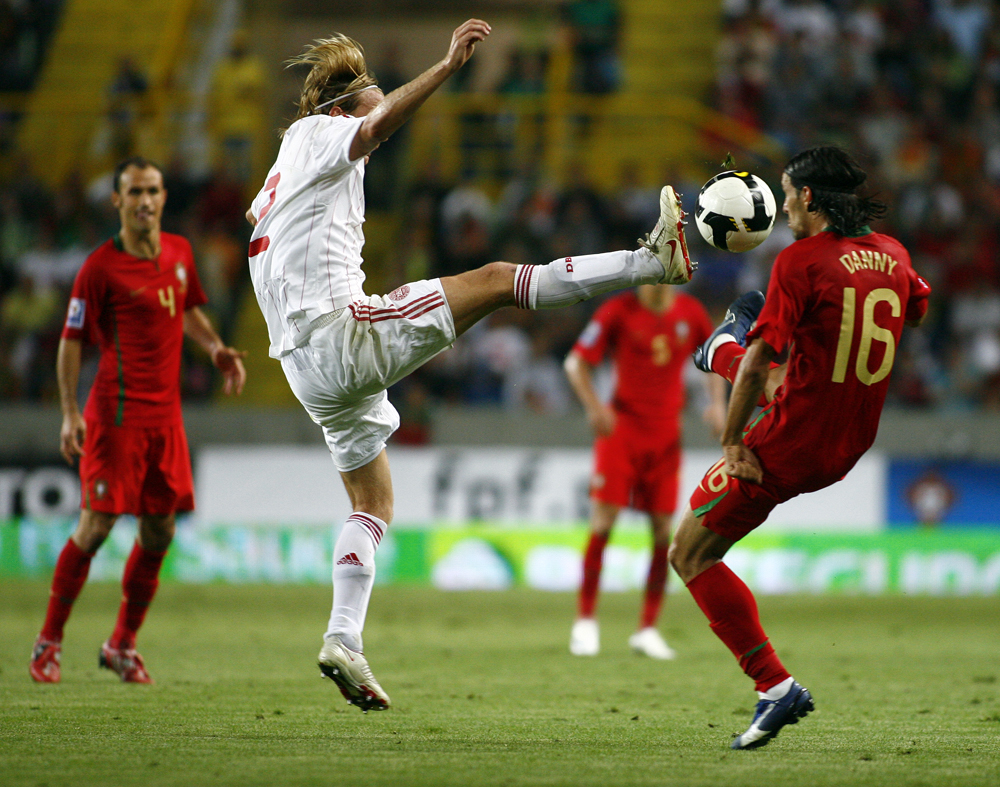 Ricardo Carvalho (4), Christian Poulsen (2), Danny (16), Portugal 2-3 Denmark, Lisbon September 10 2008